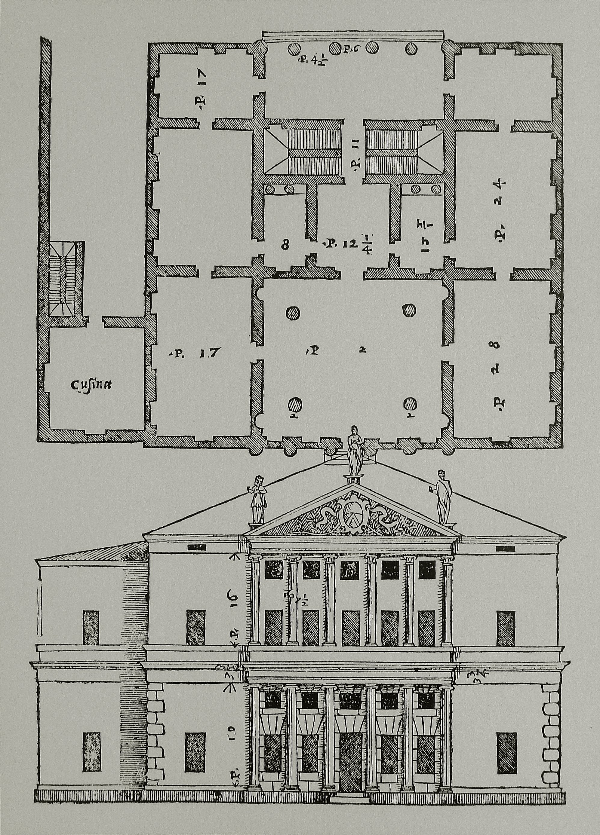 Palazzo Antonini in Udine, drawing of the original project by Andrea Palladio, from I Quattro Libri dell'Architettura, 1570